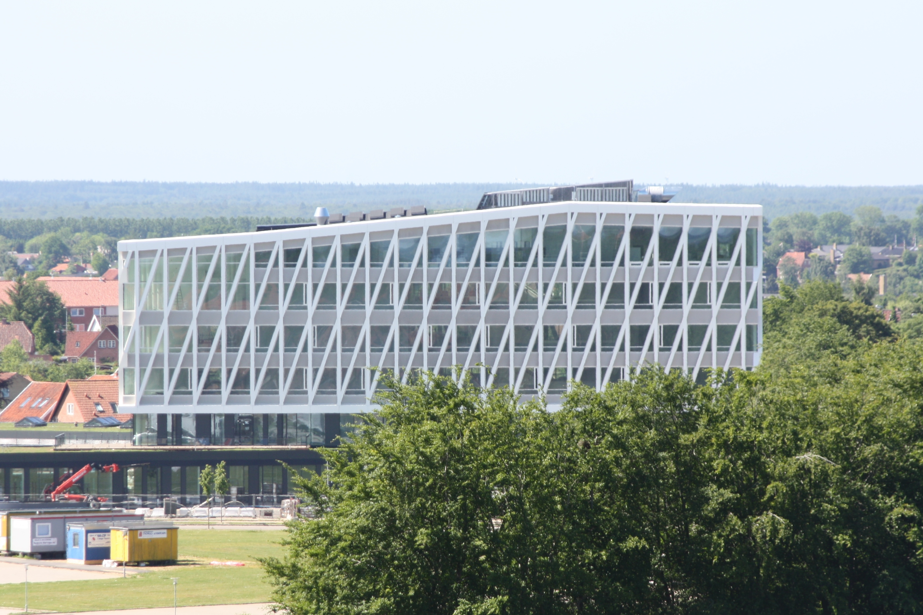 The new town hall of Viborg, Denmark seen from the top of the red water tower.